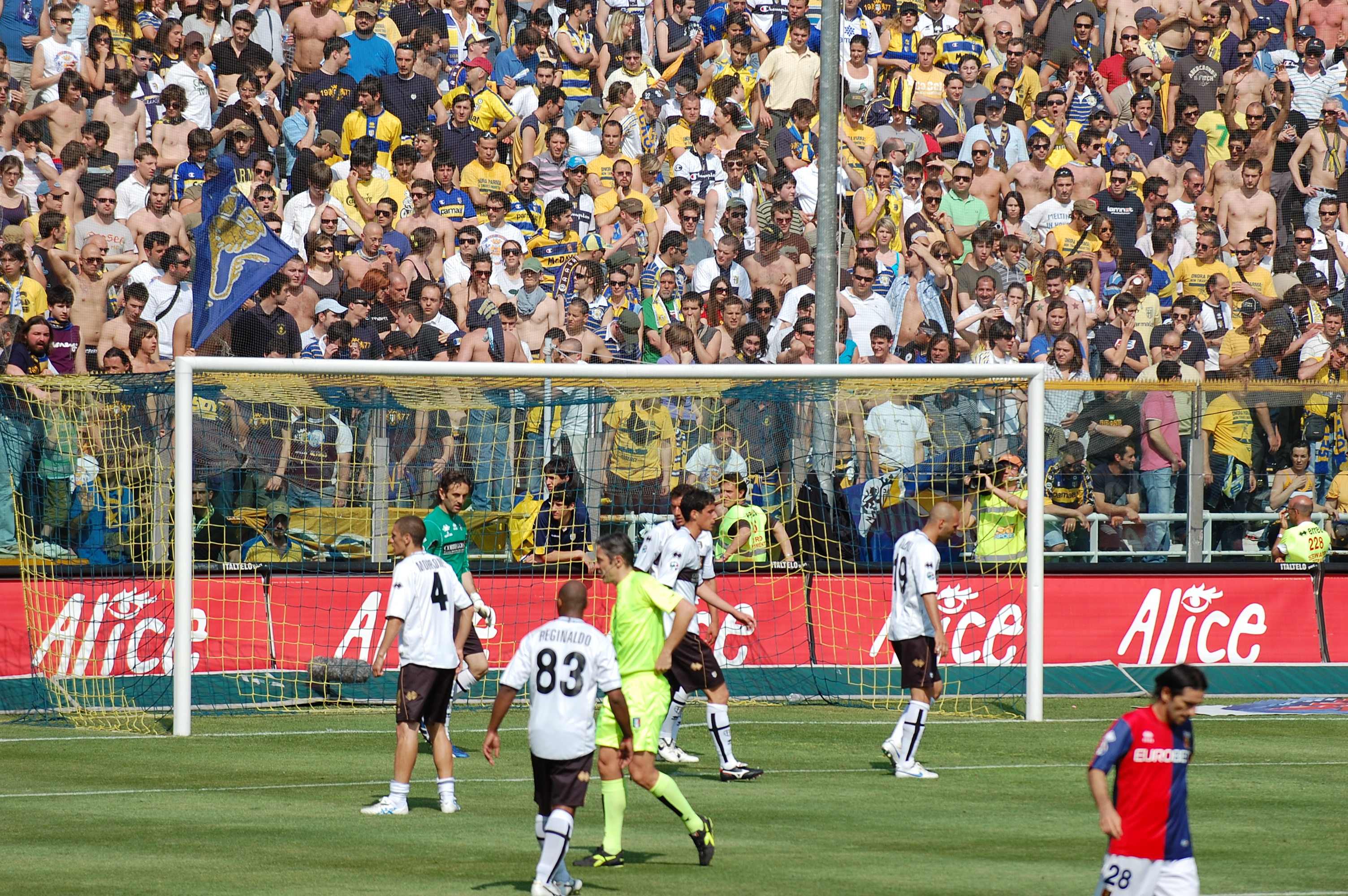 Stadio Ennio Tardini